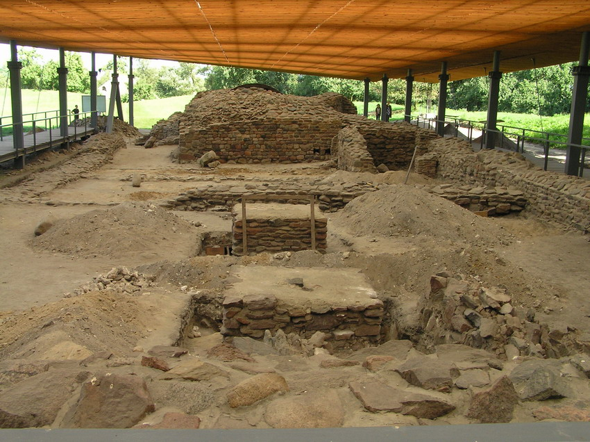 Early-medieval prince's palace at Ostrów Lednicki - view at palatium side